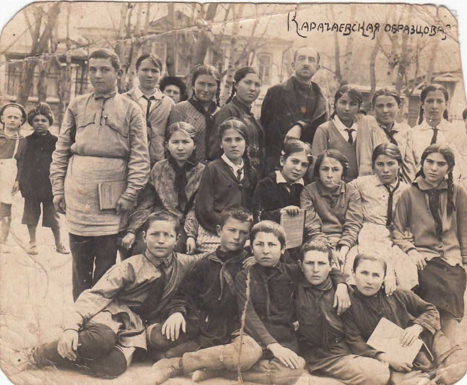 Карачаевская образцовая школа №7, 1930-е.